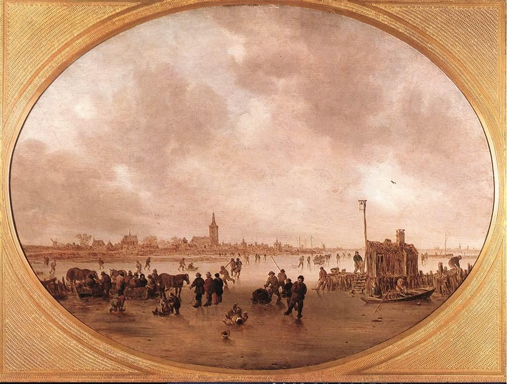 Hasselt(Ov./Netherlands)) 17th century